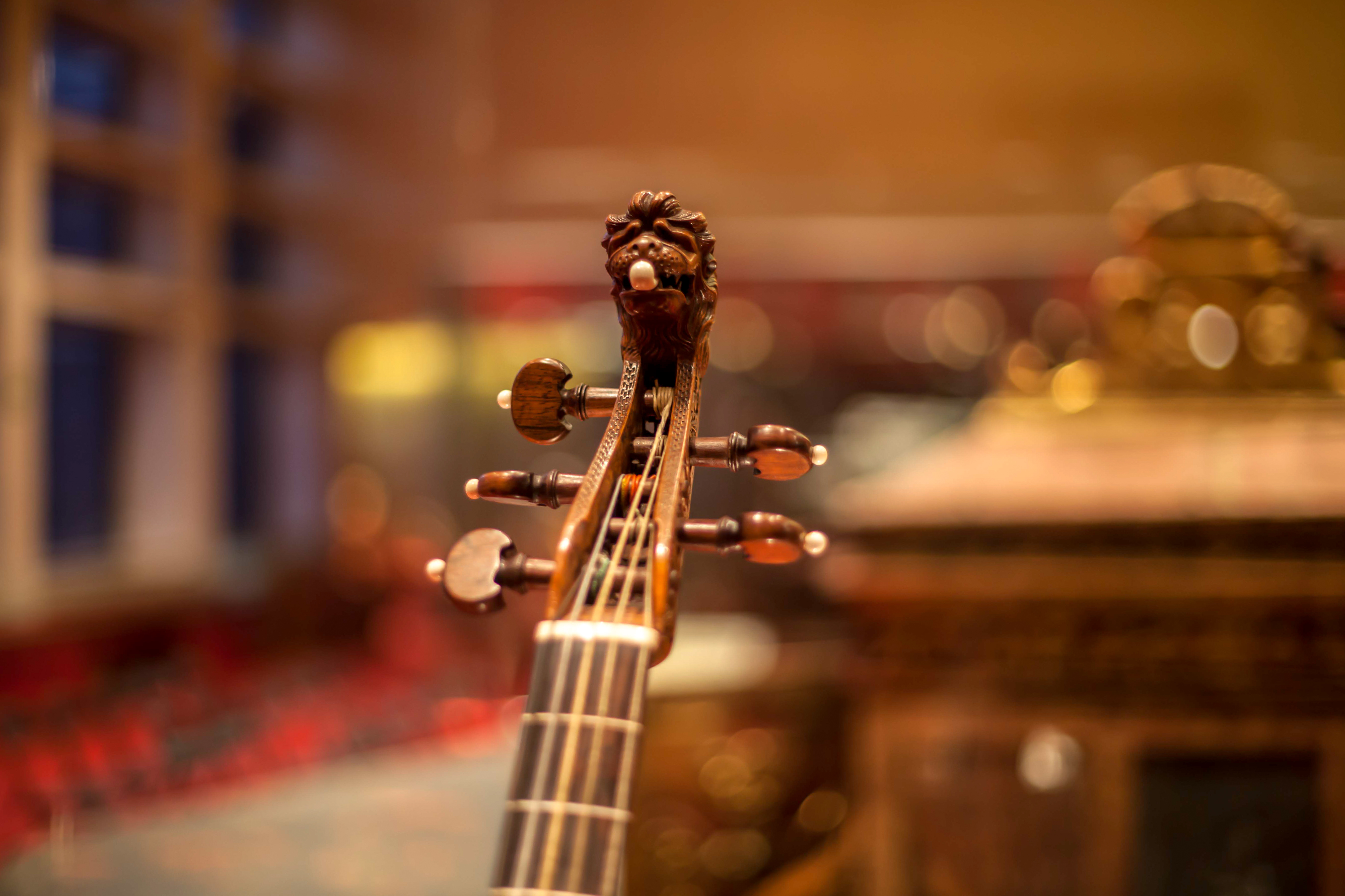 Detail of a head from a viol by Joachim Tielke